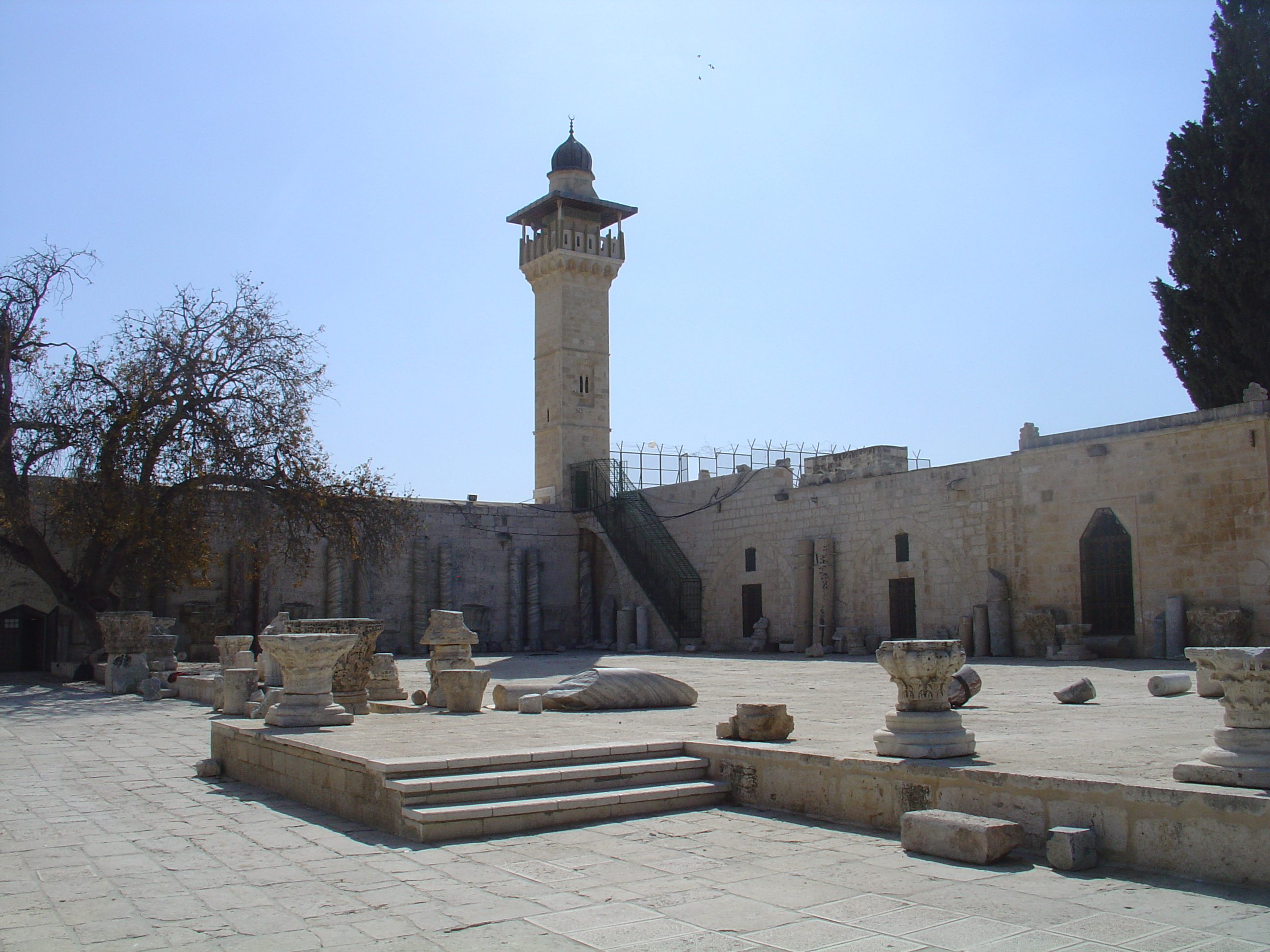 Al-Aqsa Mosque